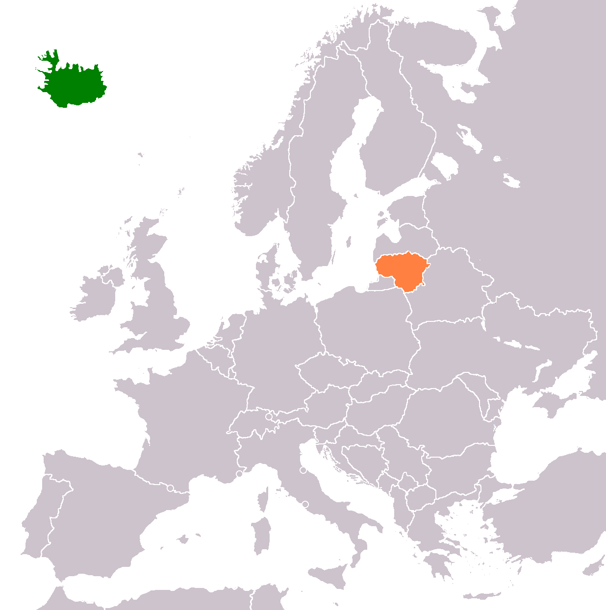 Licence free map I made out of a licence free blank map.